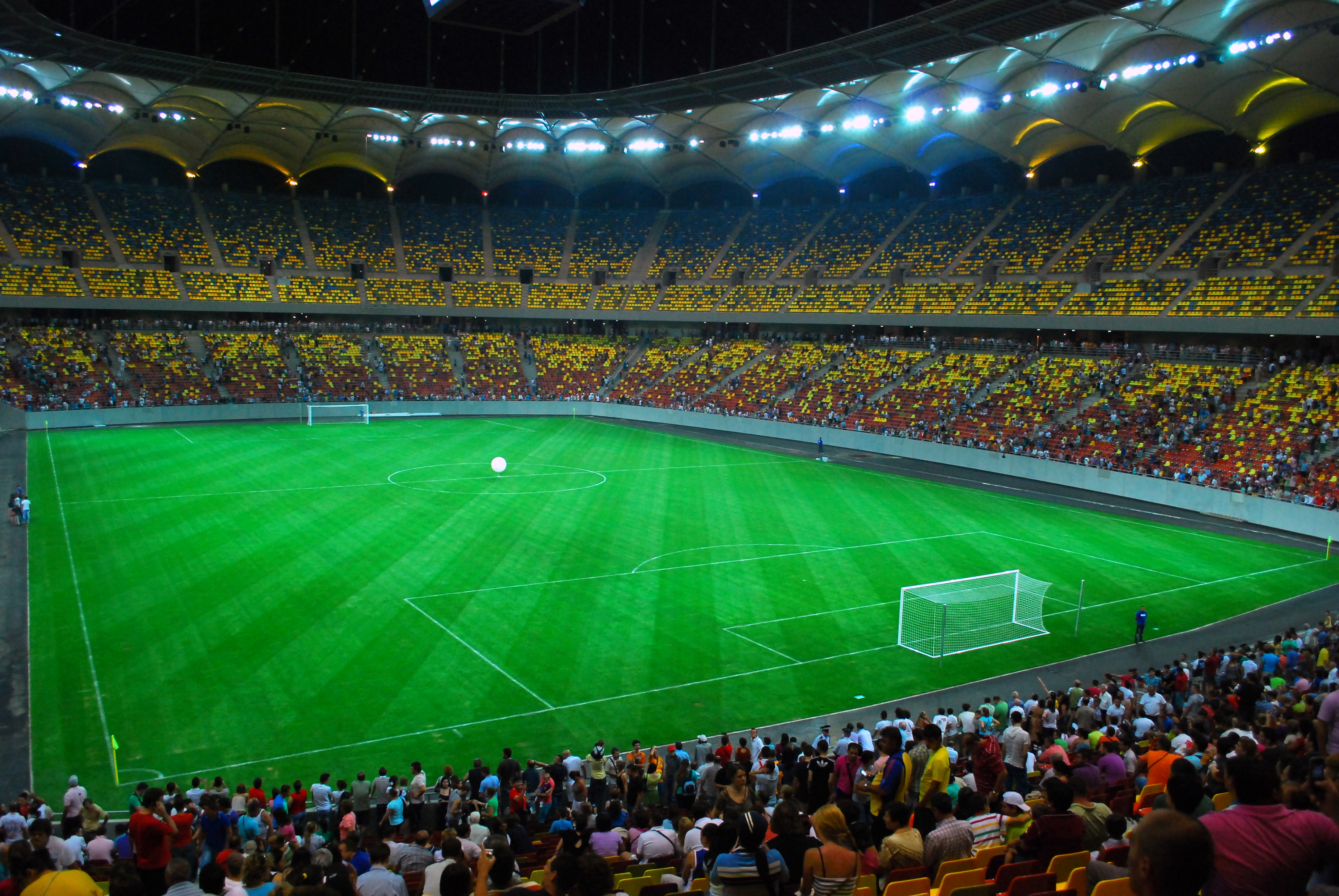 National Arena in Bucharest, Romania, on the opening day